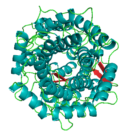 Methylcoccus capstulatus squalene-hopene cyclase